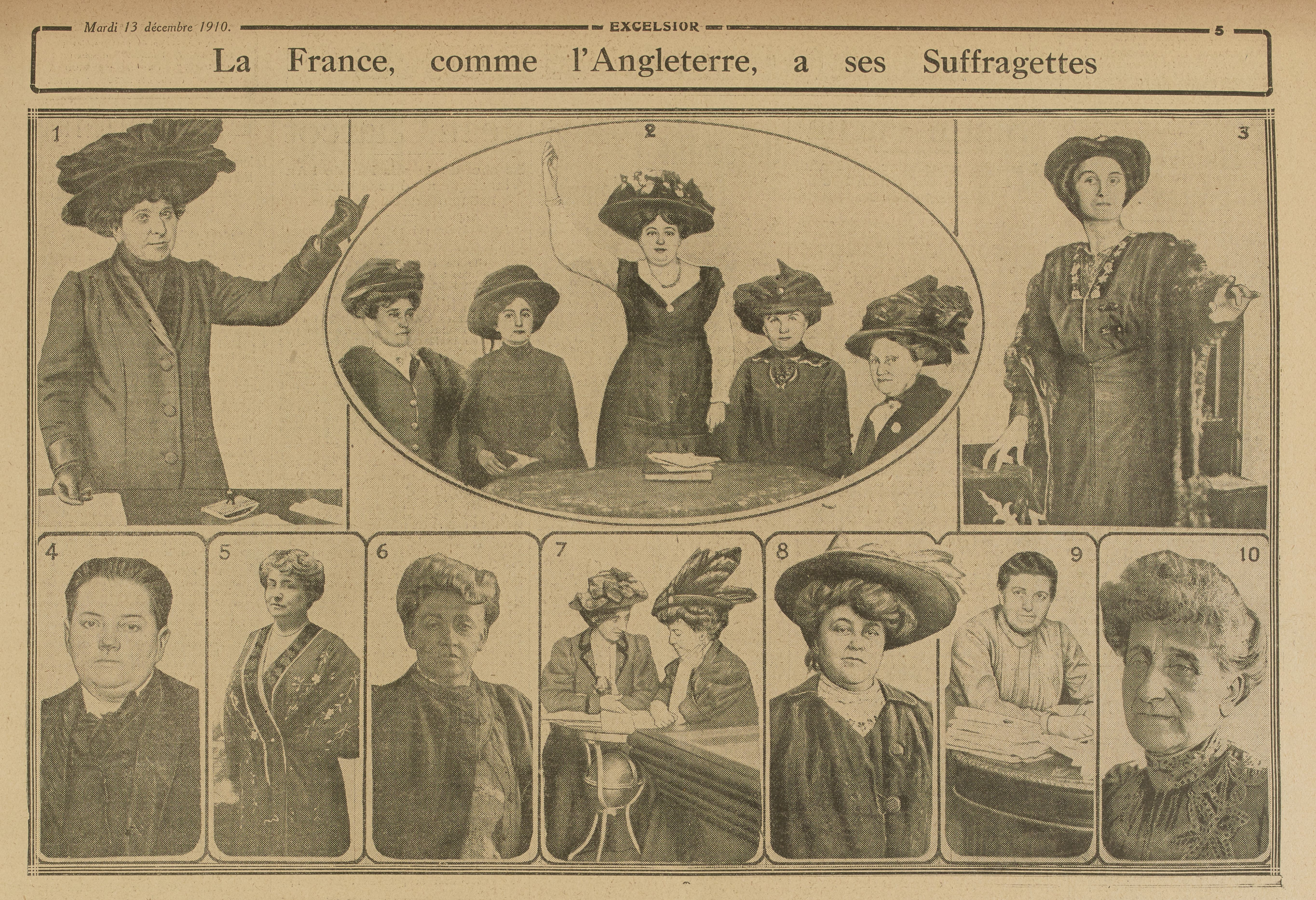 Collage published in the newspaper Excelsior, 13 December 1910. 1. Hubertine Auclert. Photo by Albert Harlingue, 1910 [1]. 2. Standing: Hélène Klatoff. Sitting (no order): Mme Lenoi, Mme Bonnardelle, Mme Chemin, Mme Louis. Photo by Albert Harlingue, 1910 [2]. 3. Nelly Roussel. 4. Madeleine Pelletier. Photo by Albert Harlingue, 1910 [3]. 5. Marguerite Durand. 6. Caroline Kauffmann. 7. Maria Vérone and Jeanne Laloë. 8. Gabrielle Chapuis. Photo by Albert Harlingue, 1910 [4]. 9. Jeanne Oddo-Deflou. 10. Avril de Sainte-Croix.